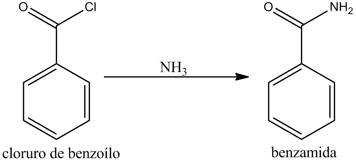 Benzamide syntesis